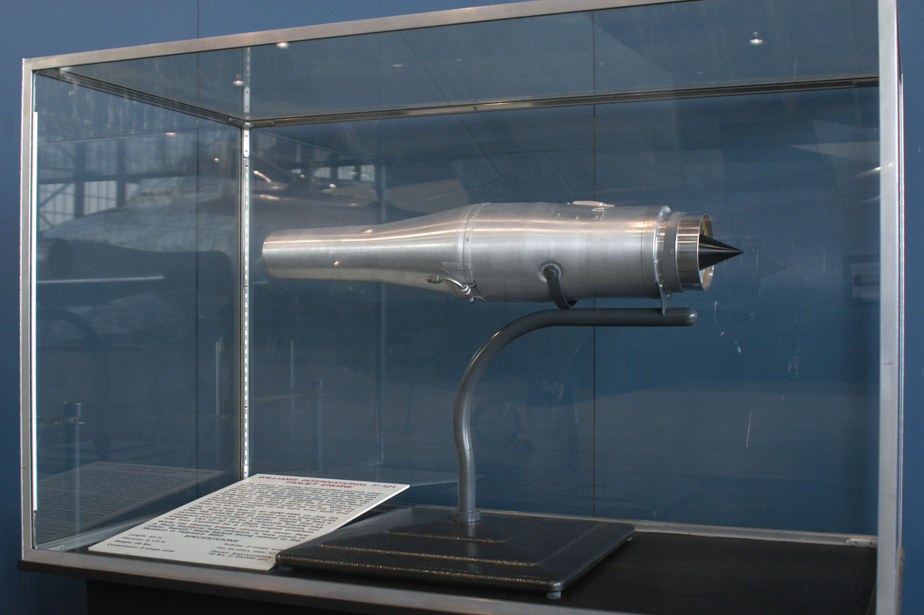 Williams International F121 Fanjet